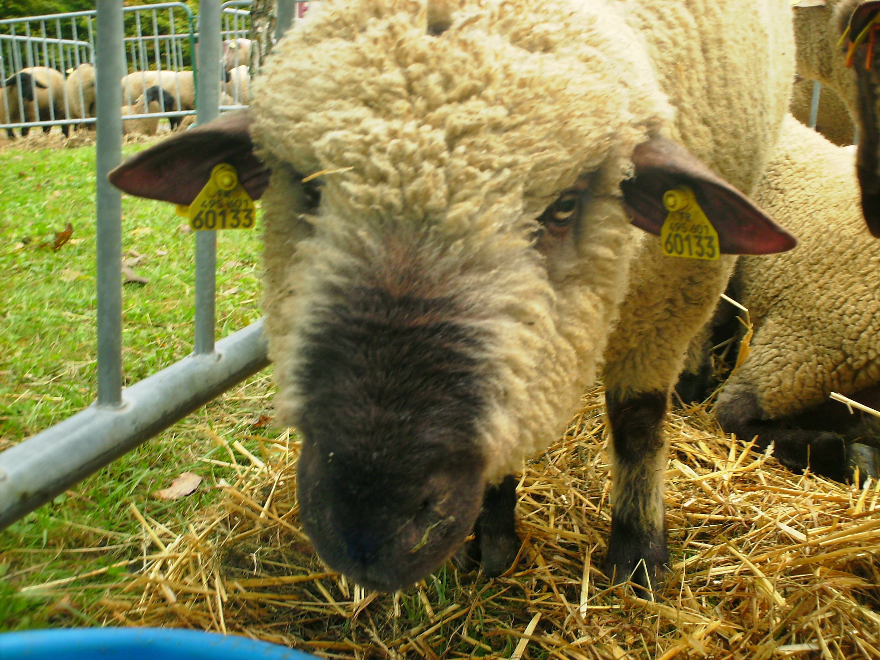 Sheep, "Dorset Down" race